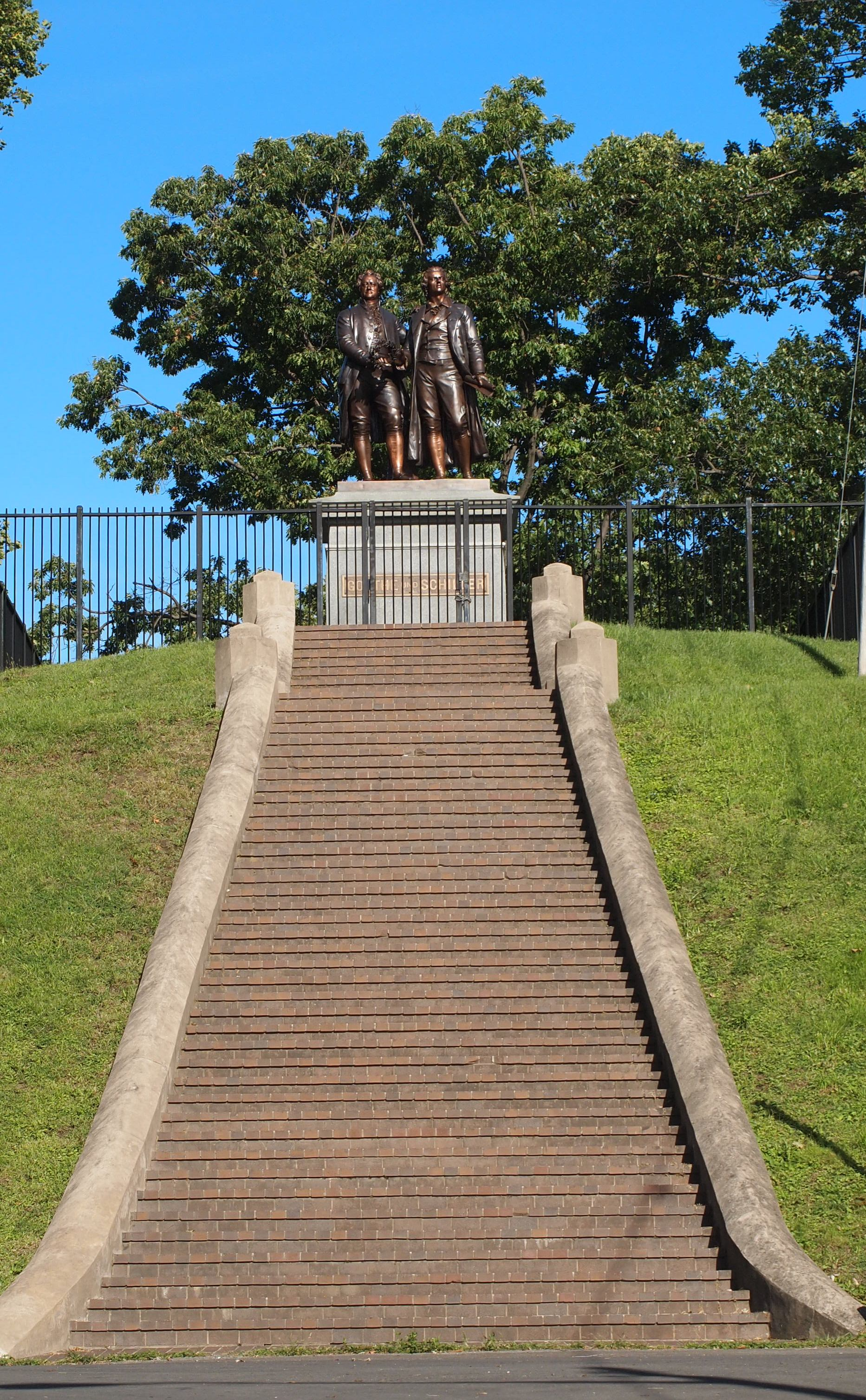 Goethe-Schiller Monument in Schiller Park, Syracuse, New York. The monument was dedicated on October 15, 1911. The statue is an electrotyped copper copy of Ernst Rietschel's bronze casting, which is incorporated in the original 1857 Goethe-Schiller Monument in Weimar, Germany.